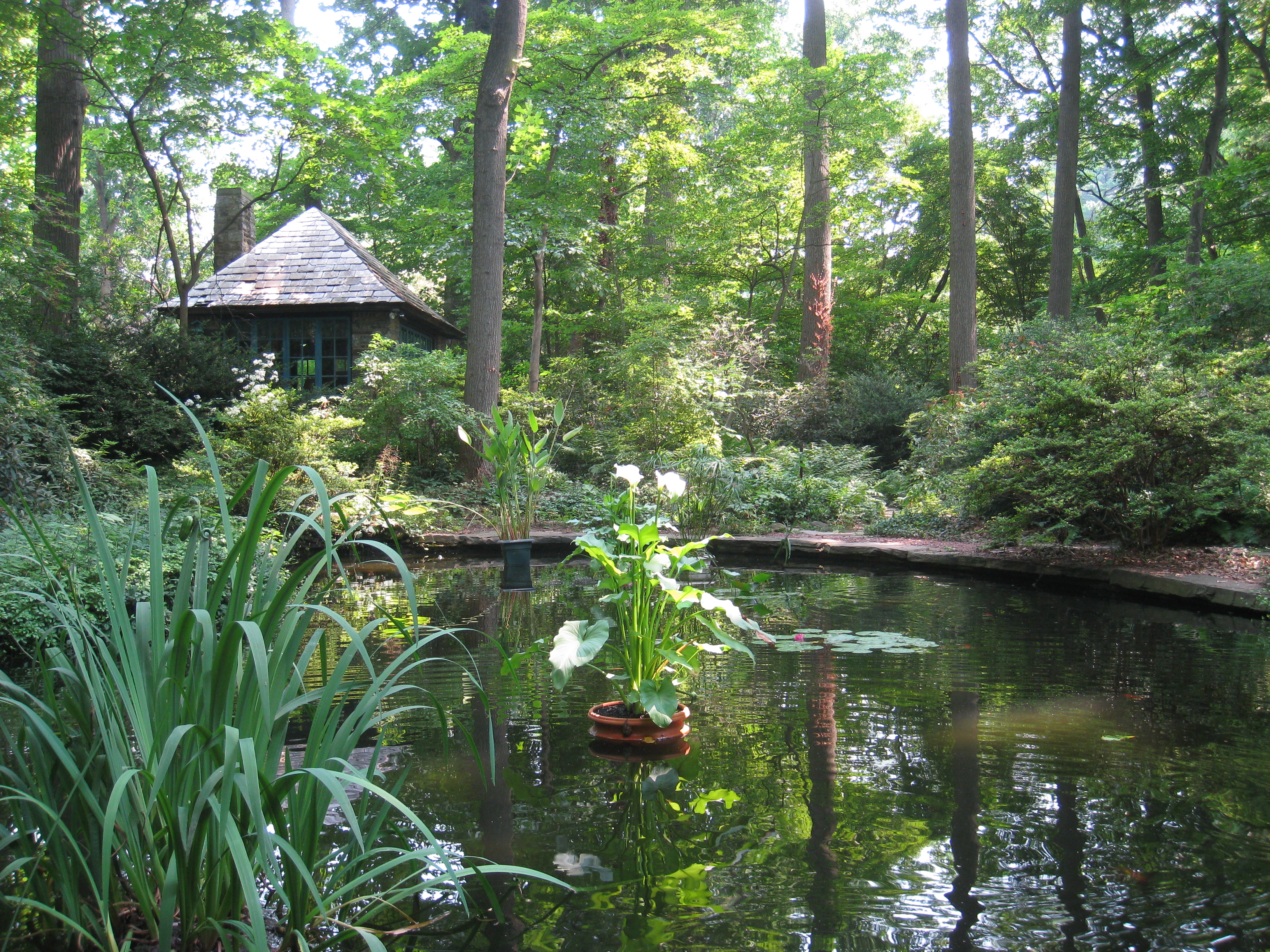 Barnes Foundation, Merion, Pennsylvania, USA - arboretum pond and teahouse.